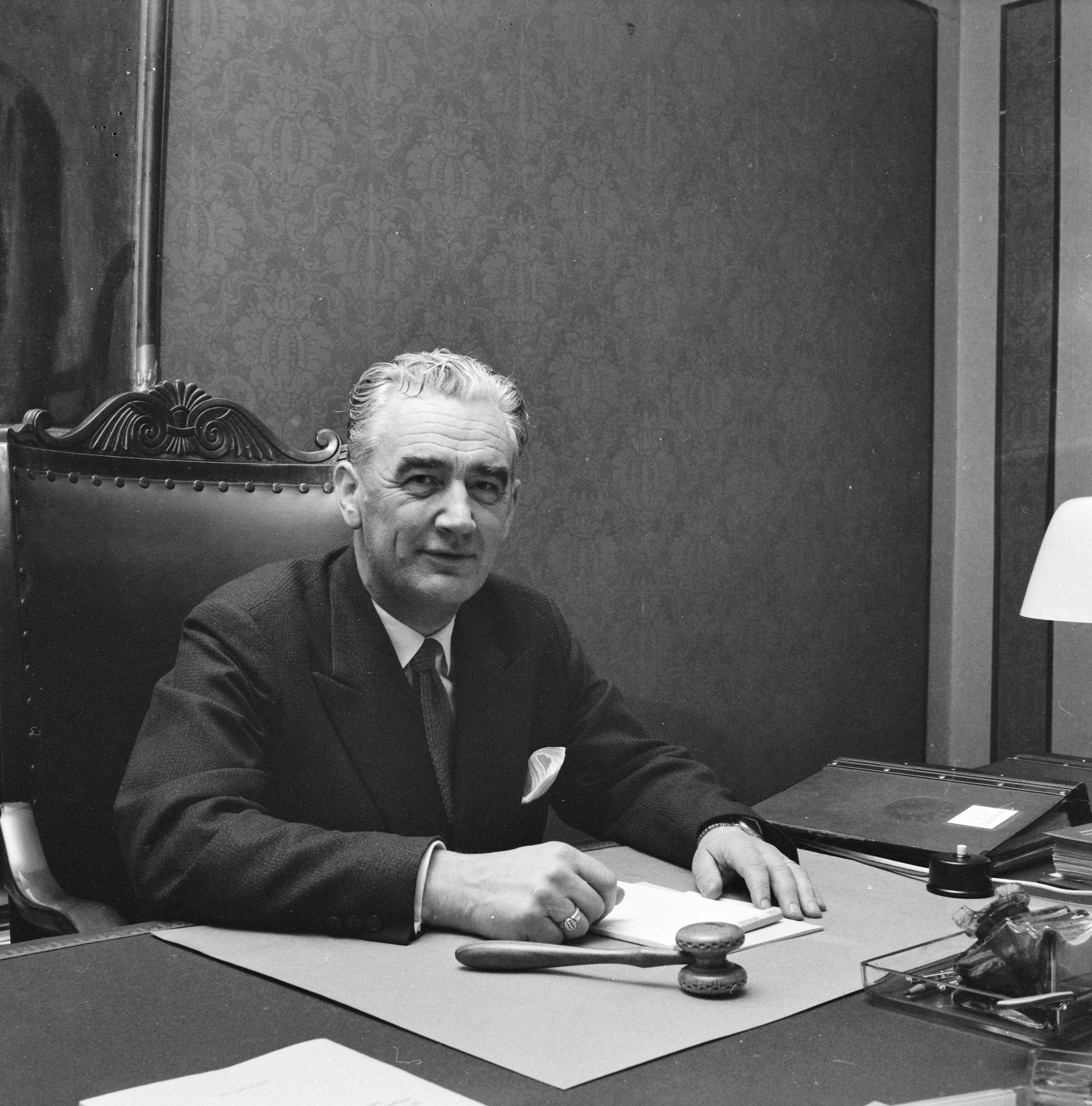 Photograph of the Finnish Prime Minister Reino Kuuskoski (1907–1965).